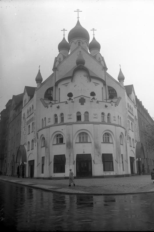 Berlins russische Kirche wird versteigert! Infolge grosser Geldmangel wird die am Fehrbelliner Platz (Hohenzollerndammm 33 Ecke Ruhrstraße) befindliche russische Kirche am 8. Oktober 1929 versteigert werden. Information added by Wikimedia users.The Russian Orthodox Church in Berlin, integrated into the residential building Hohenzollerndammm 33 corner Ruhrstraße. Due to insolvency of the congregation the church was put up for compulsory sale on 8 October 1929.